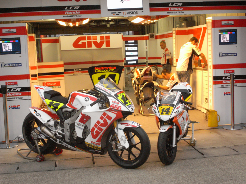 The LCR Honda team garage, with the bikes of Randy de Puniet on display at the 2008 Japanese Grand Prix.